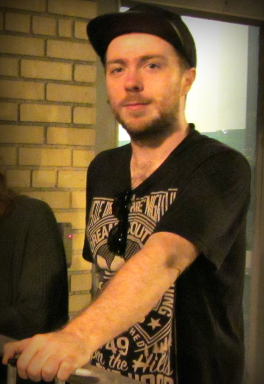 Martin Doherty post-show at Royal Oak Music Hall in Royal Oak, Michigan, June 7, 2014